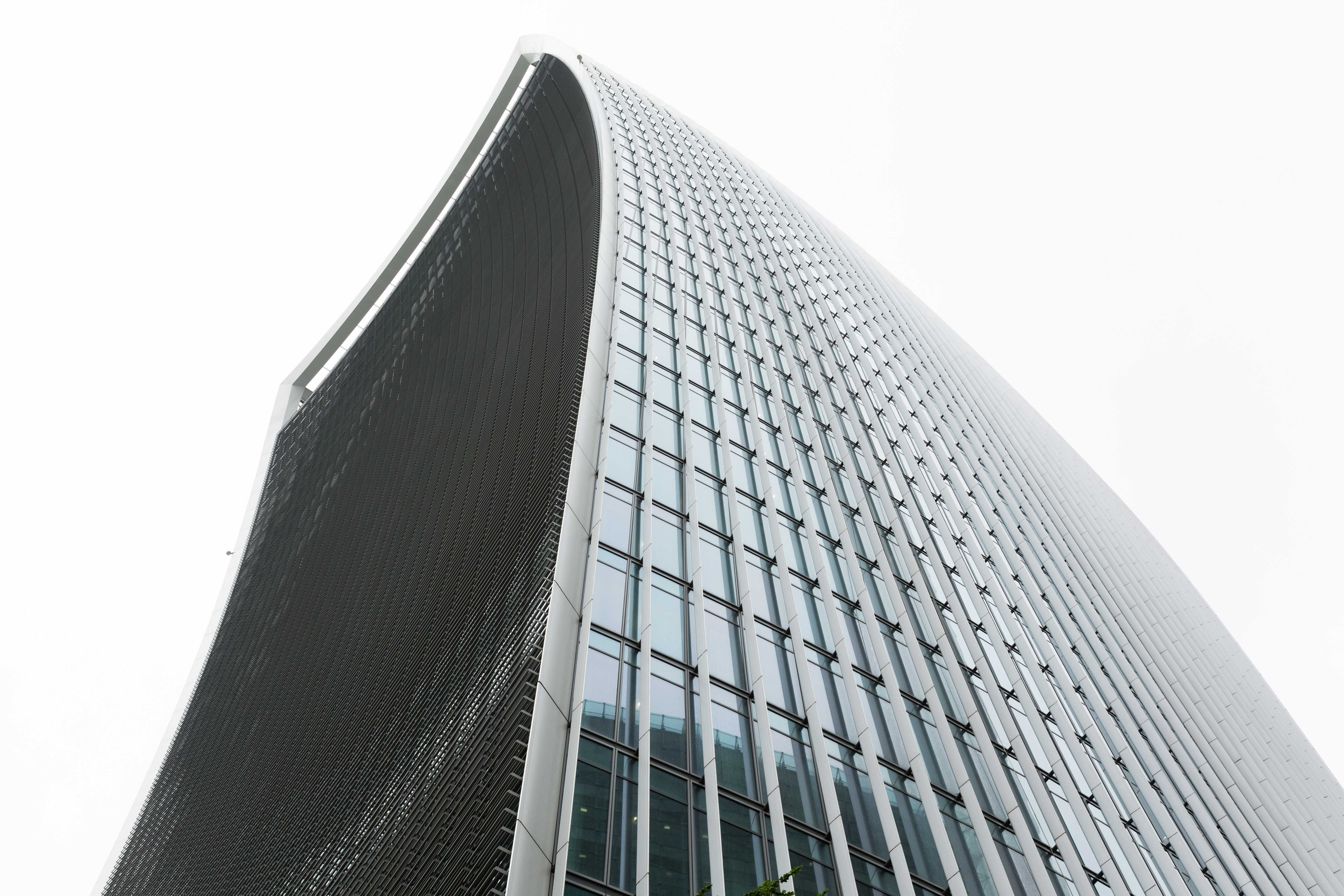 20 Fenchurch St building as viewed from ground level on Rood Lane in London, England.